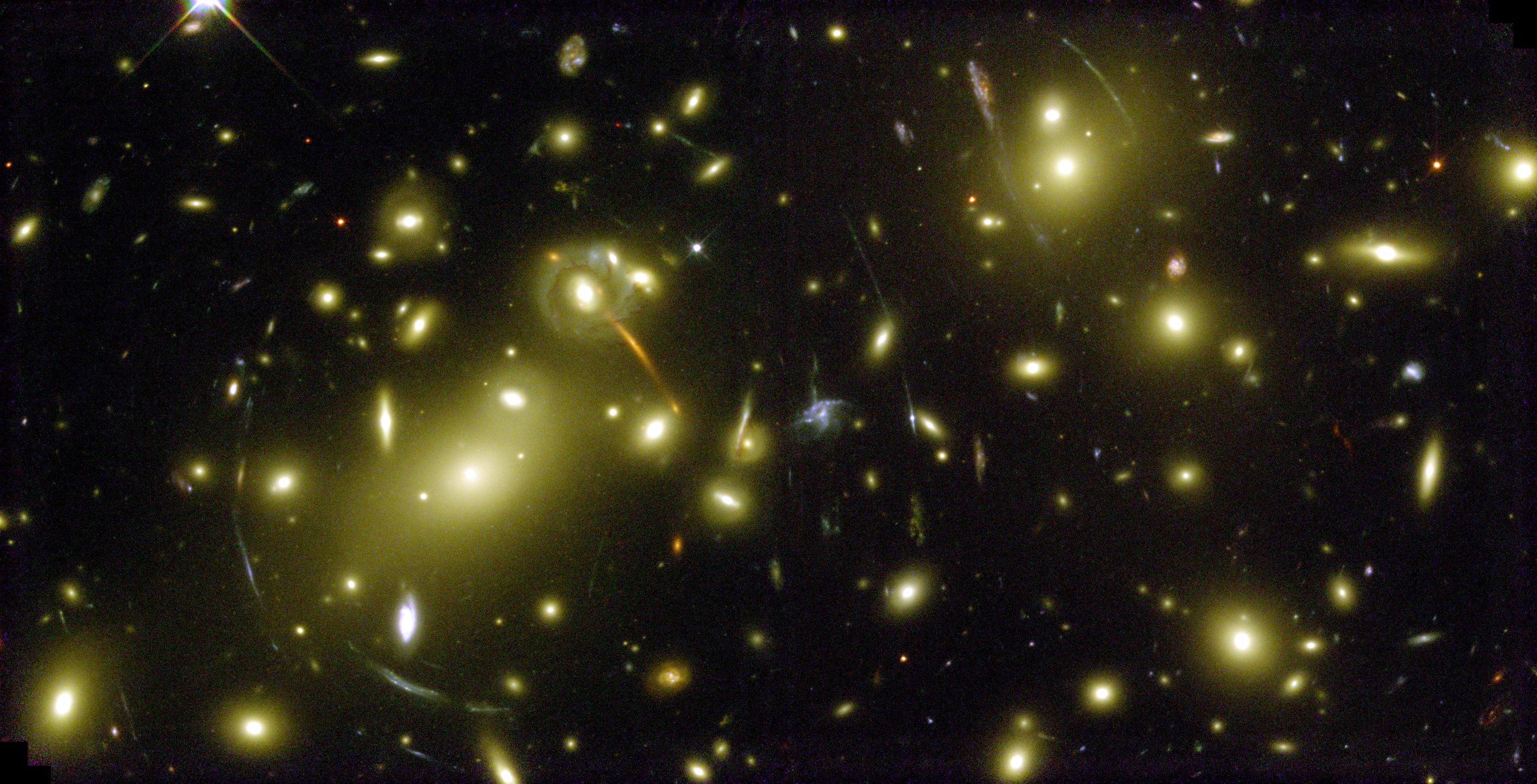 Scanning the heavens for the first time since the successful December 1999 servicing mission, NASA's Hubble Space Telescope imaged a giant, cosmic magnifying glass, a massive cluster of galaxies called Abell 2218. This 'hefty' cluster resides in the constellation Draco, some 2 billion light-years from Earth. The cluster is so massive that its enormous gravitational field deflects light rays passing through it, much as an optical lens bends light to form an image. This phenomenon, called gravitational lensing, magnifies, brightens, and distorts images from faraway objects. The cluster's magnifying powers provides a powerful "zoom lens" for viewing distant galaxies that could not normally be observed with the largest telescopes. The picture is dominated by spiral and elliptical galaxies. Resembling a string of tree lights, the biggest and brightest galaxies are members of the foreground cluster. Researchers are intrigued by a tiny red dot just left of top center. This dot may be an extremely remote object made visible by the cluster's magnifying powers. Further investigation is needed to confirm the object's identity. The color picture already reveals several arc-shaped features that are embedded in the cluster and cannot be easily seen in the black-and- white image. The colors in this picture yield clues to the ages, distances, and temperatures of stars, the stuff of galaxies. Blue pinpoints hot young stars. The yellow-white color of several of the galaxies represents the combined light of many stars. Red identifies cool stars, old stars, and the glow of stars in distant galaxies. This view is only possible by combining Hubble's unique image quality with the rare lensing effect provided by the magnifying cluster.